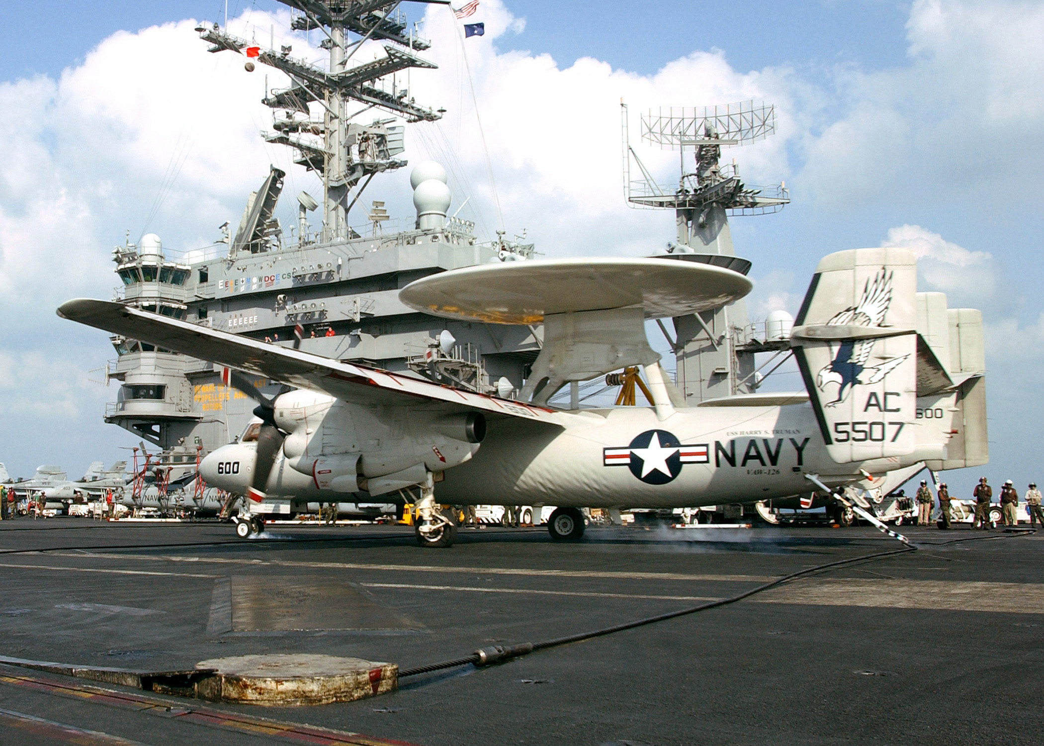 Ripples appear along the fuselage of a US Navy (USN) E-2C Hawkeye aircraft assigned to the "Seahawks" of Carrier Airborne Early Warning Squadron 126 (VAW-126), due to the tremendous amount of torque and pressure exerted on the aircraft while landing on the flight deck of the USN Nimitz Class Aircraft Carrier, USS HARRY S. TRUMAN (CVN 75). (Released to Public) DoD photo by: PHAN KRISTOPHER WILSON, USN Date Shot: 11 Jan 2005